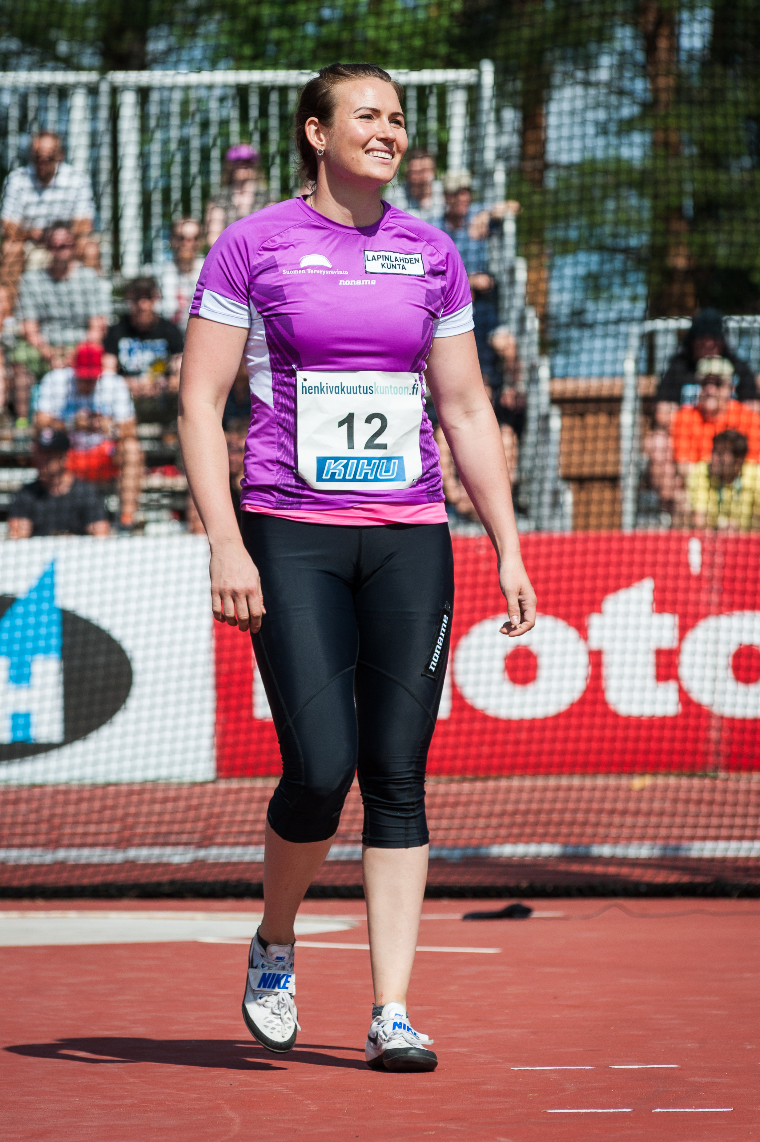 Women's discus throw competition at the 2018 Kalevan Kisat, the Finnish championships in athletics, in Jyväskylä, Finland.